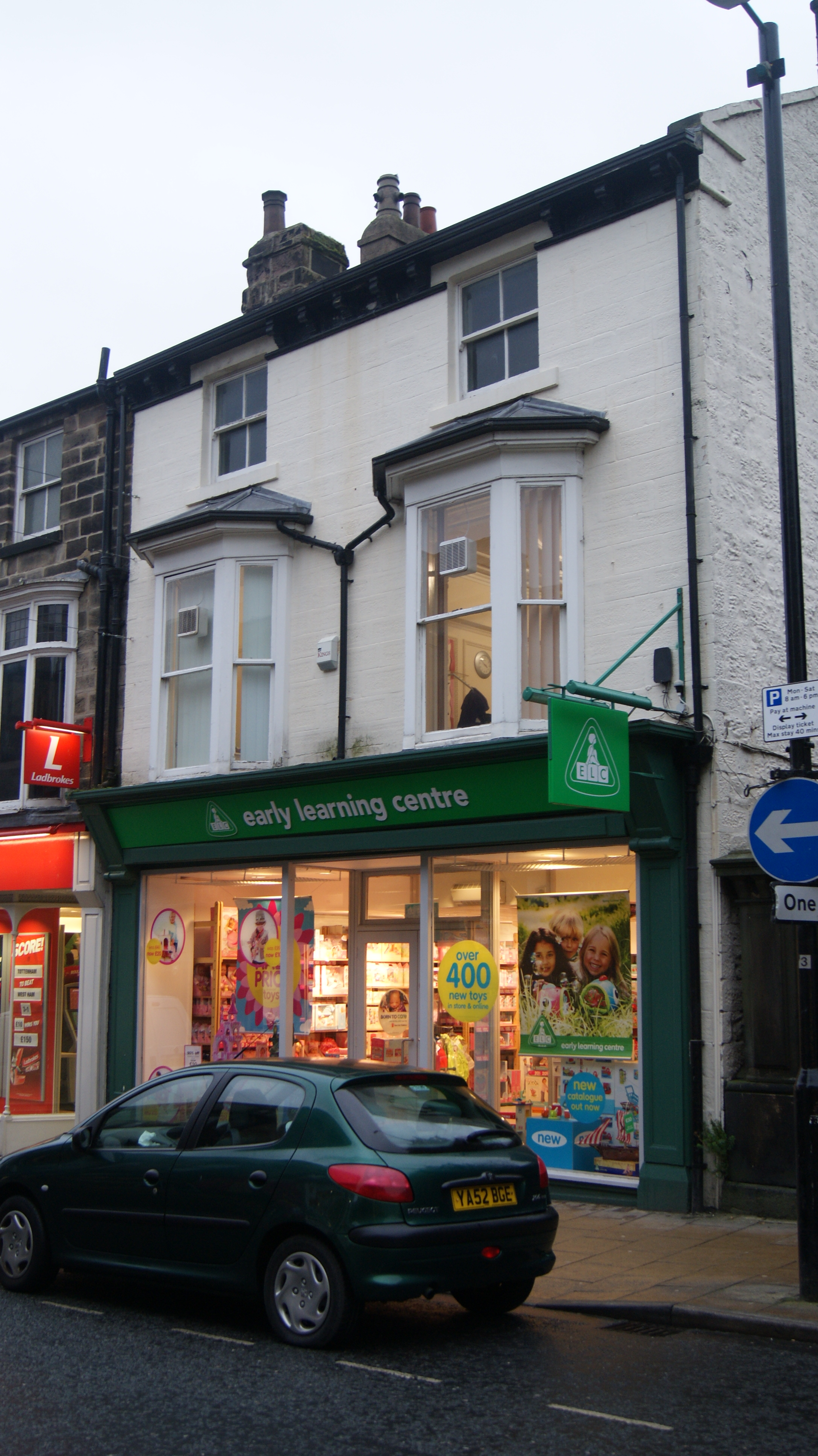 Early Learning Centre, Oxford Street, Harrogate, North Yorkshire. Taken on the afternoon of Monday the 25th of February 2013.